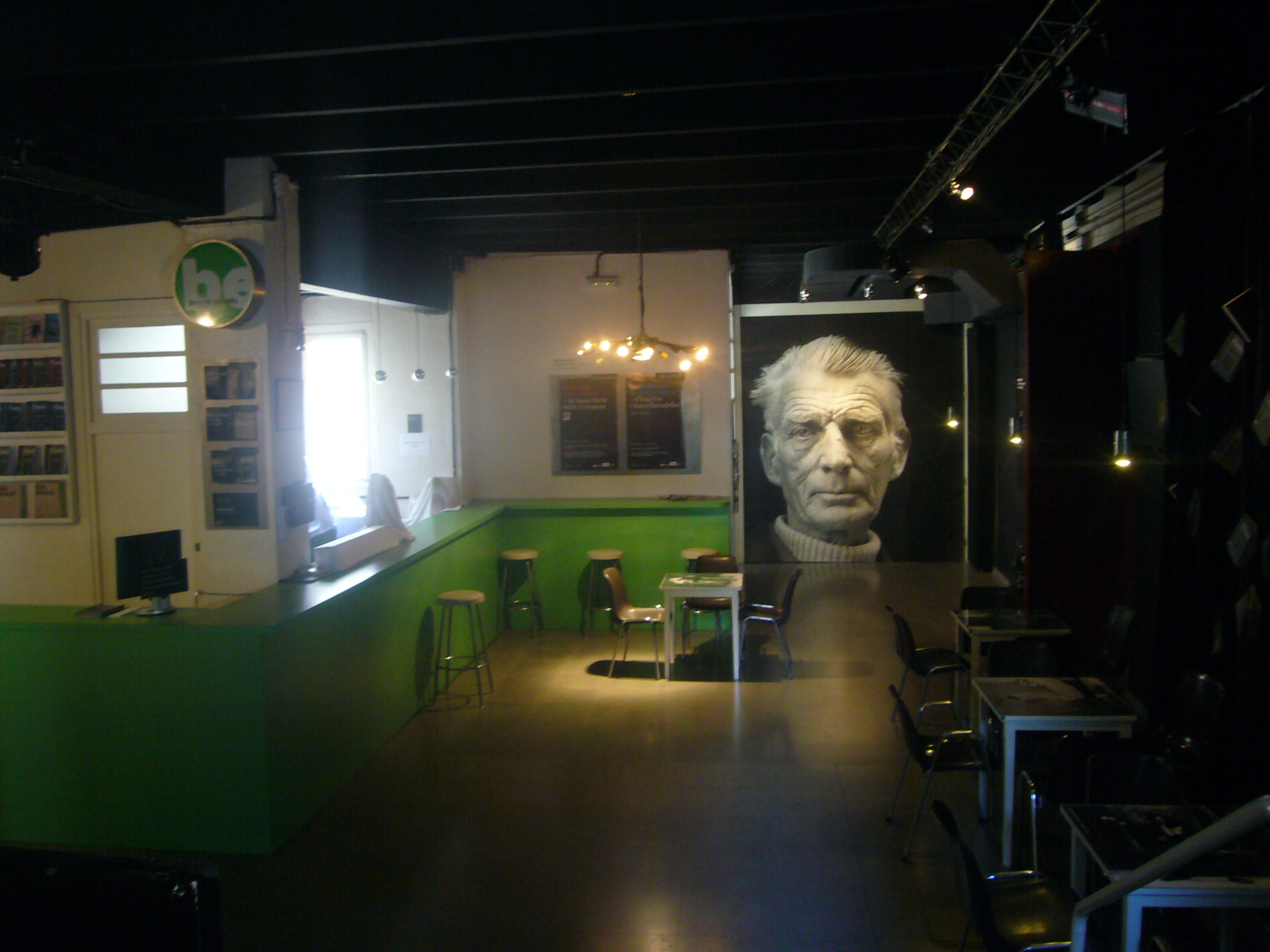 Sala Beckett